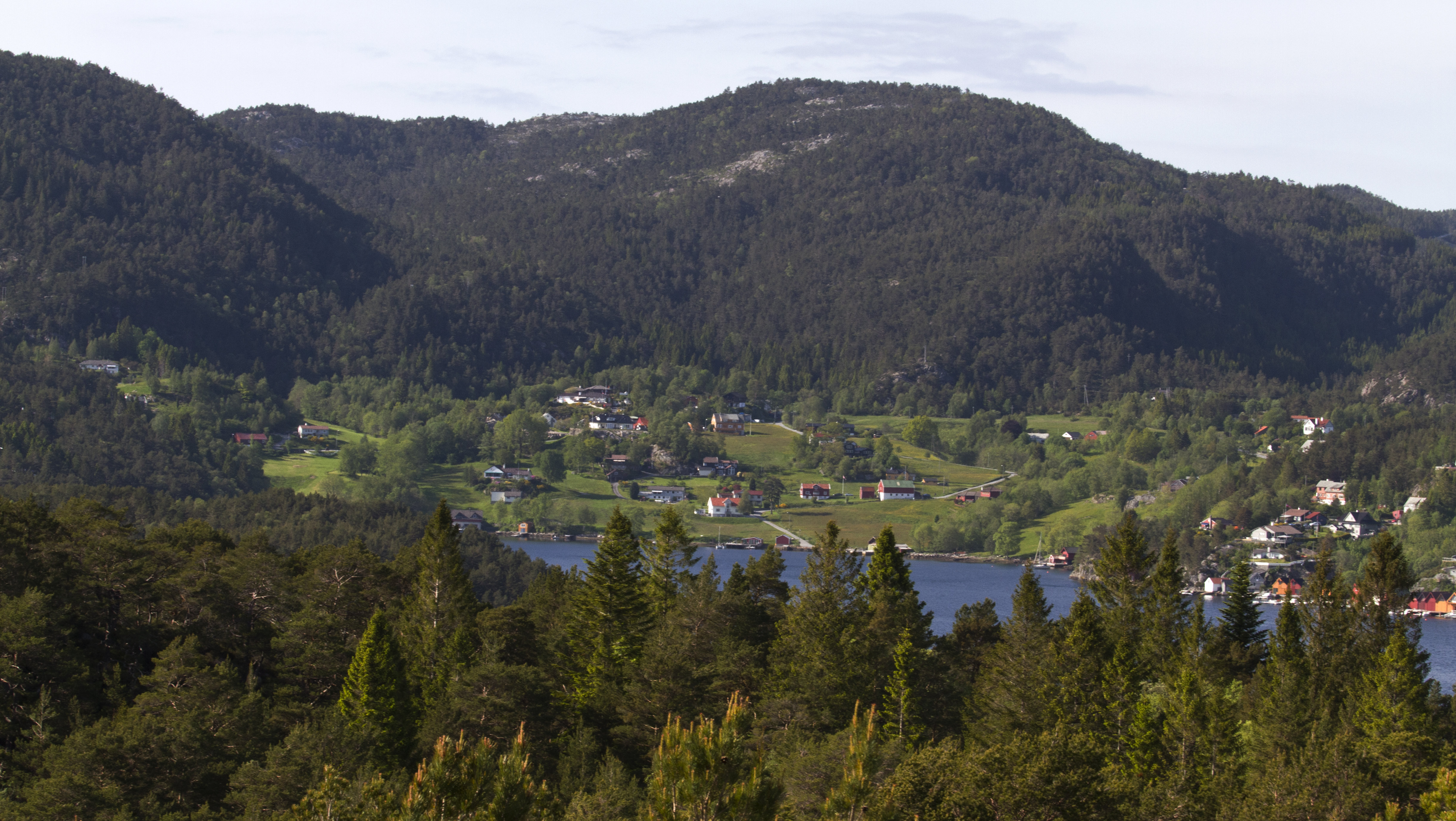 Os, Norway